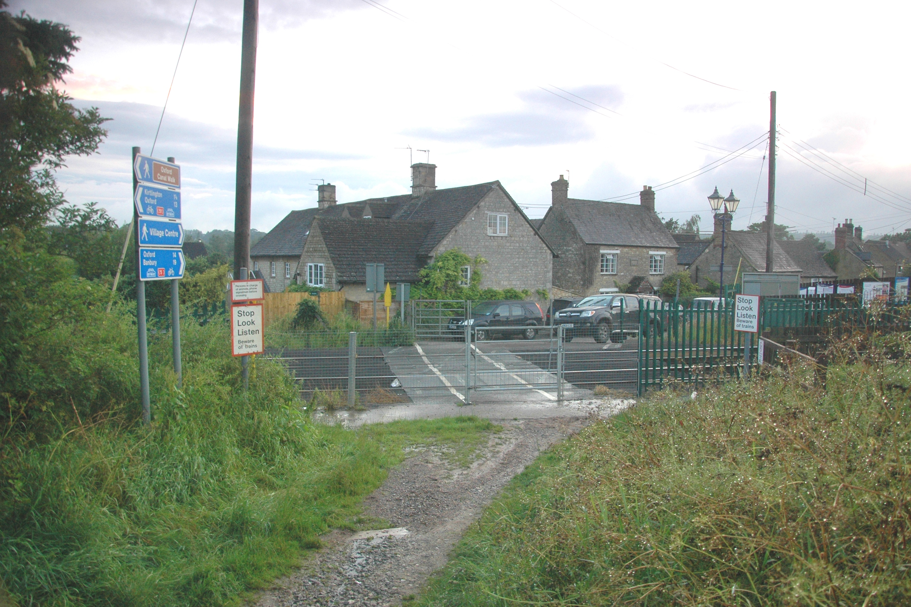 Tackley railway station, Oxfordshire: user-operated level crossing viewed from the east.